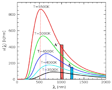 Radiation curves illustrating Wien's Law